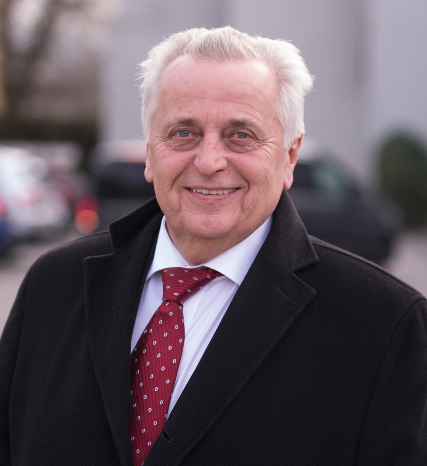 Rudolf Hundstorfer